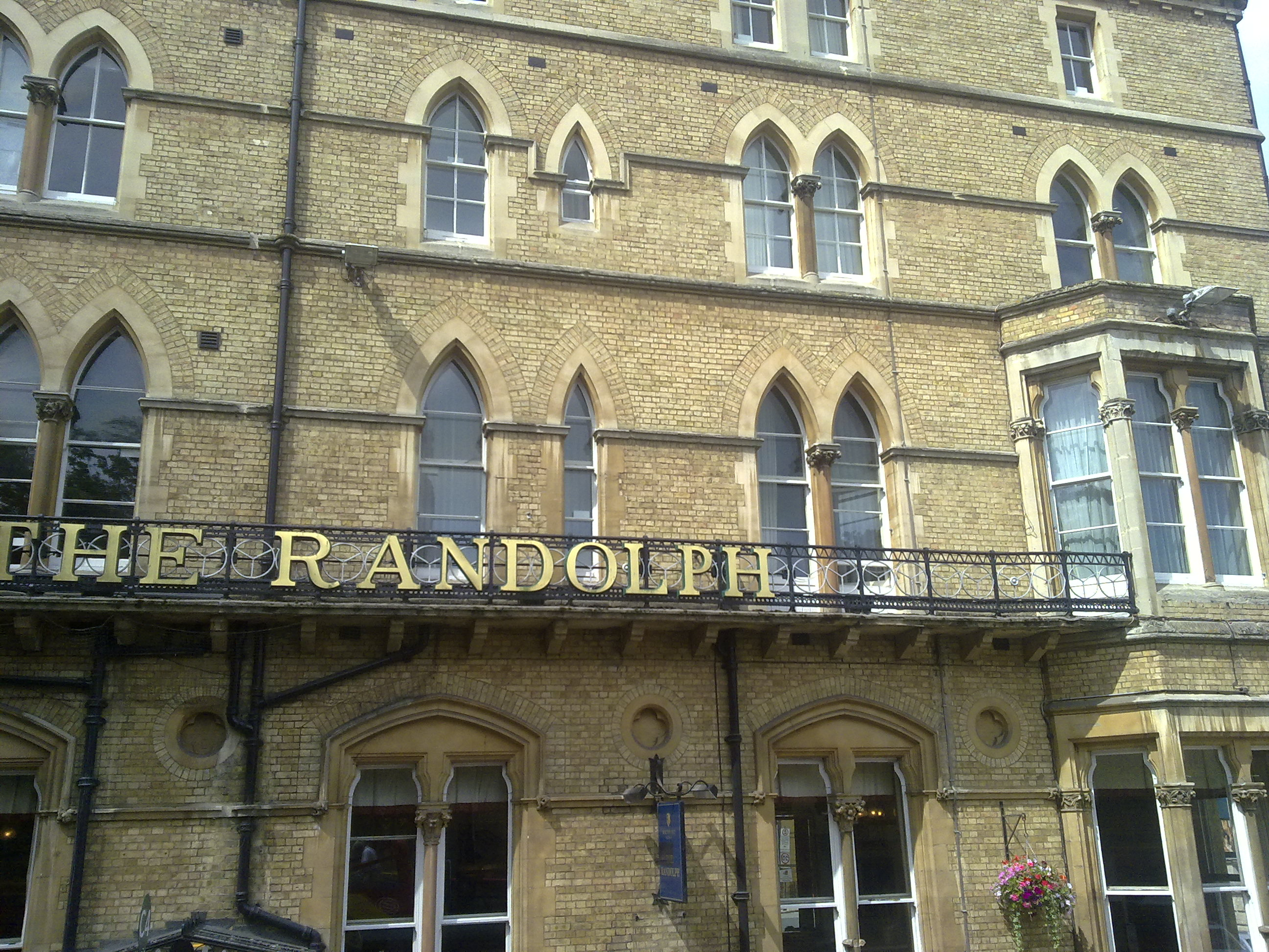 Part of the east side of the Randolph Hotel, Oxford, facing Magdalen Street West